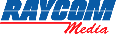 Raycom Media Logo (Raycom Media & Career Women)